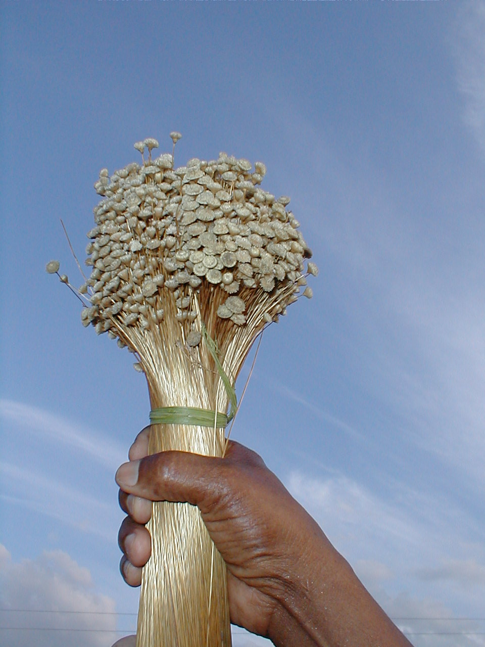 Golden grass in its pure form (Syngonanthus nitens)